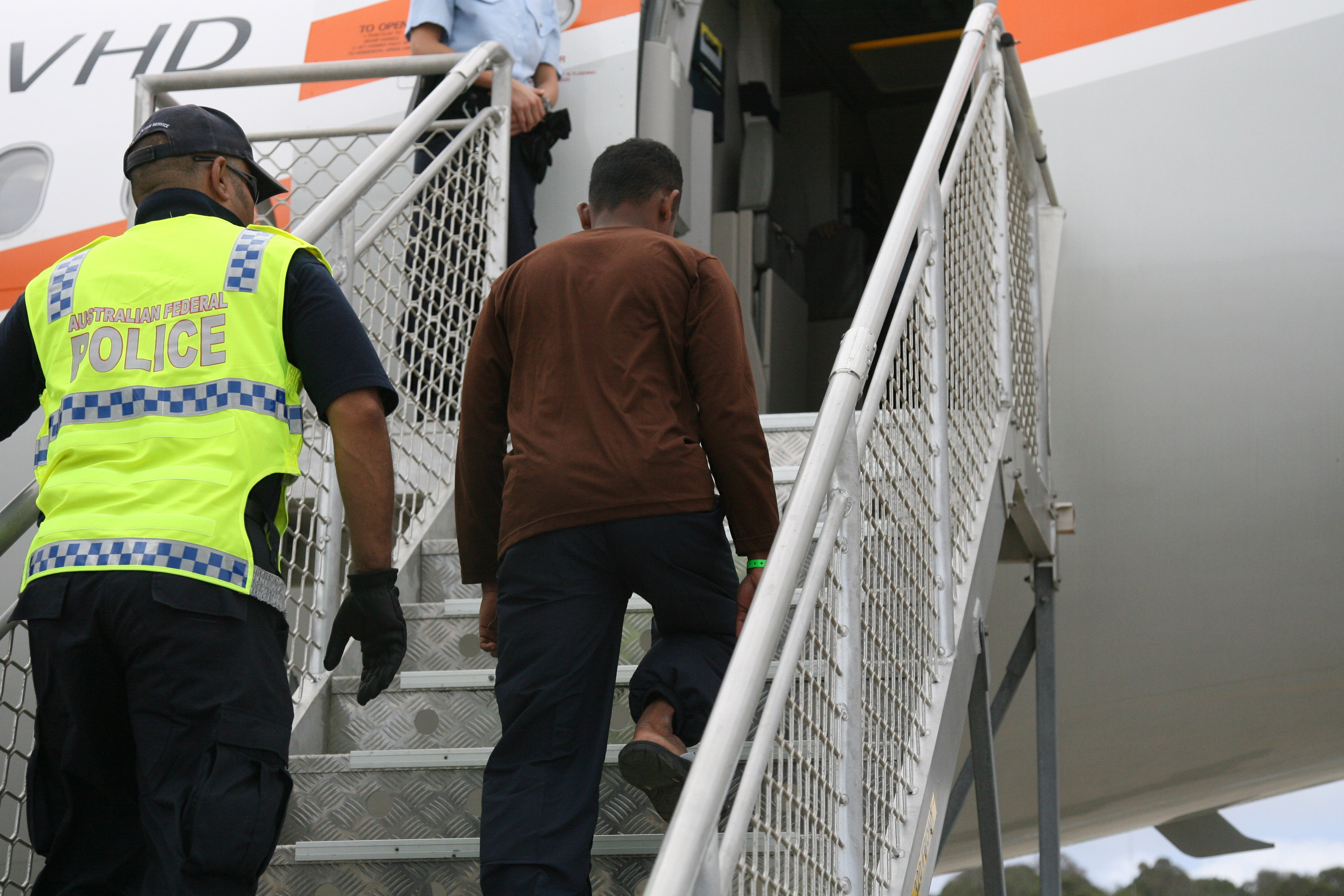 Another 36 Sri Lankan men returned from Christmas Island on November 10 2012 - the fourth involuntary removal that week.